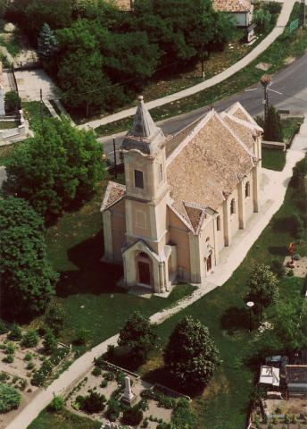 Kocs, Hungary, aerialphotography